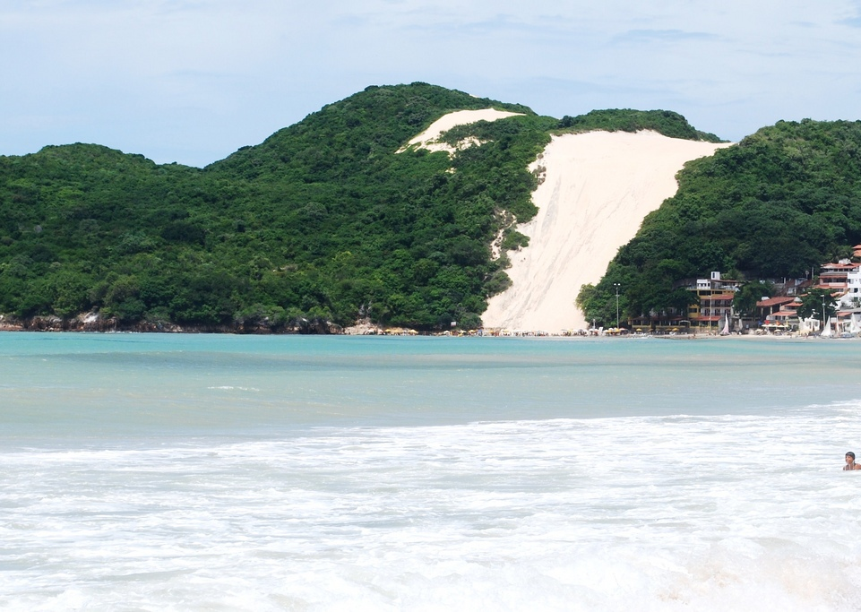 Morro do Careca (Bald Hill) in Natal, Brazil. (Flickr uploader described it as "Morro do Careca - Praia de Ponta Negra - Natal/RN")